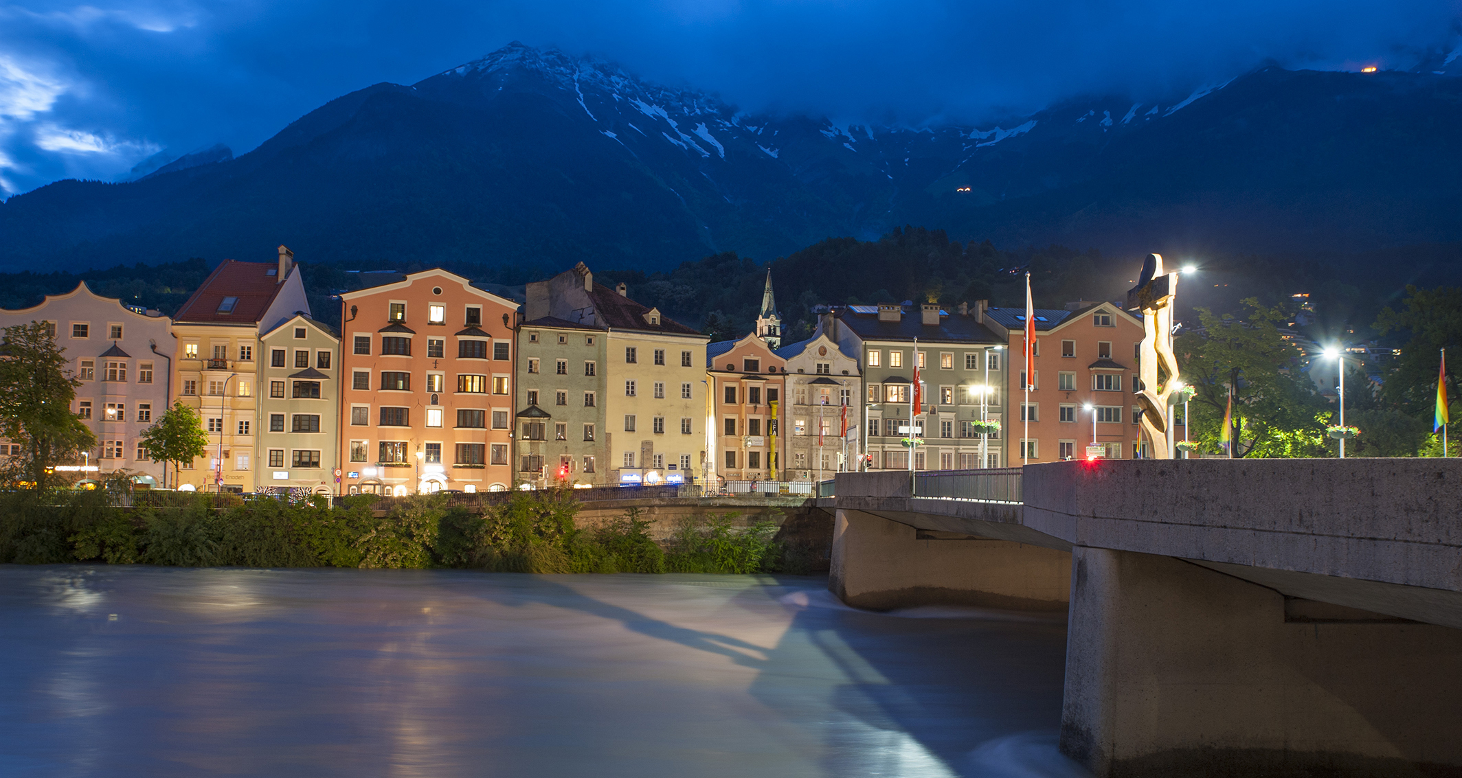 Colorful buildings across the River Inn at blue hour. Innsbruck, Austria.